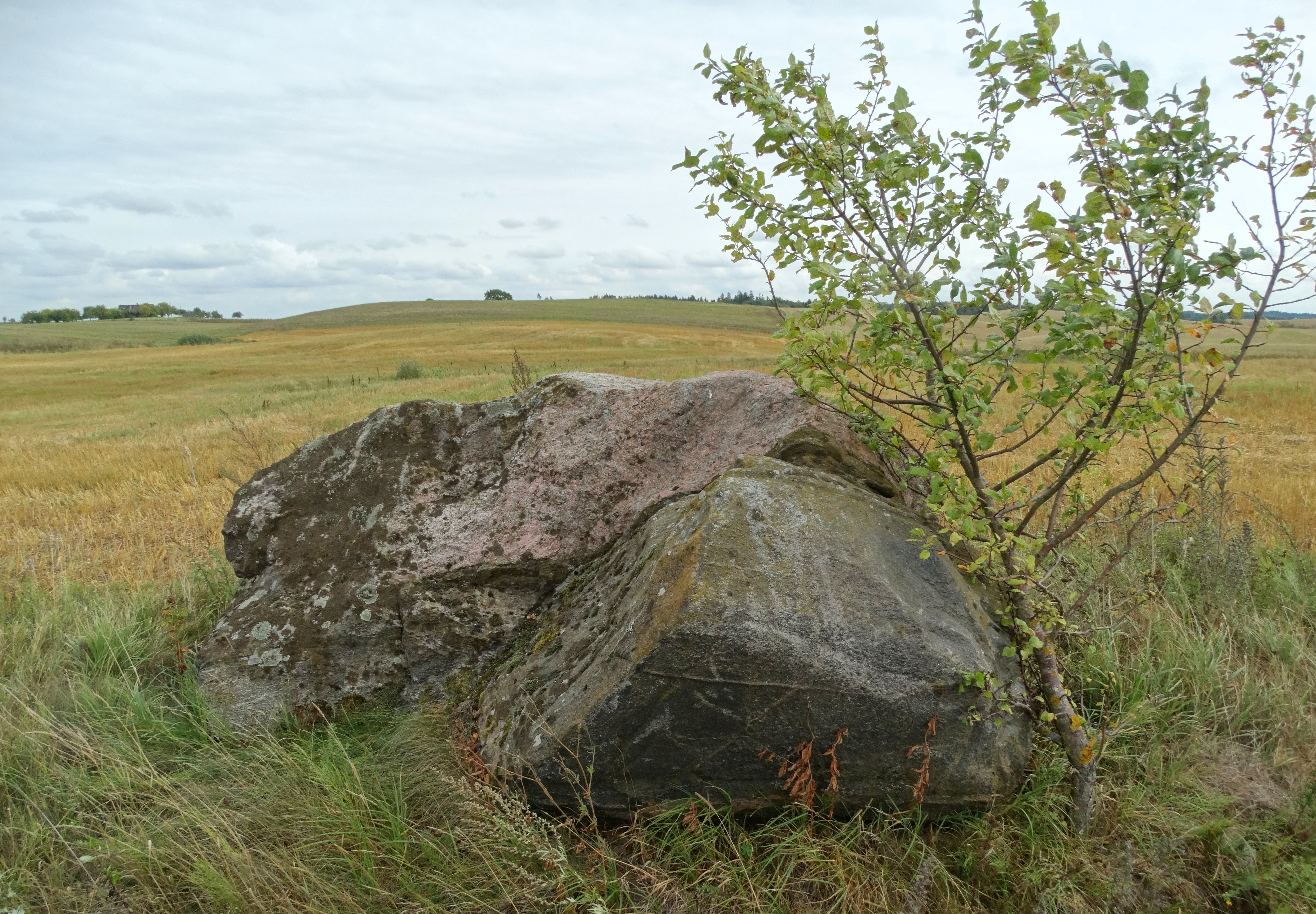 Sevelionys stone, Kaišiadorys District, Lithuania